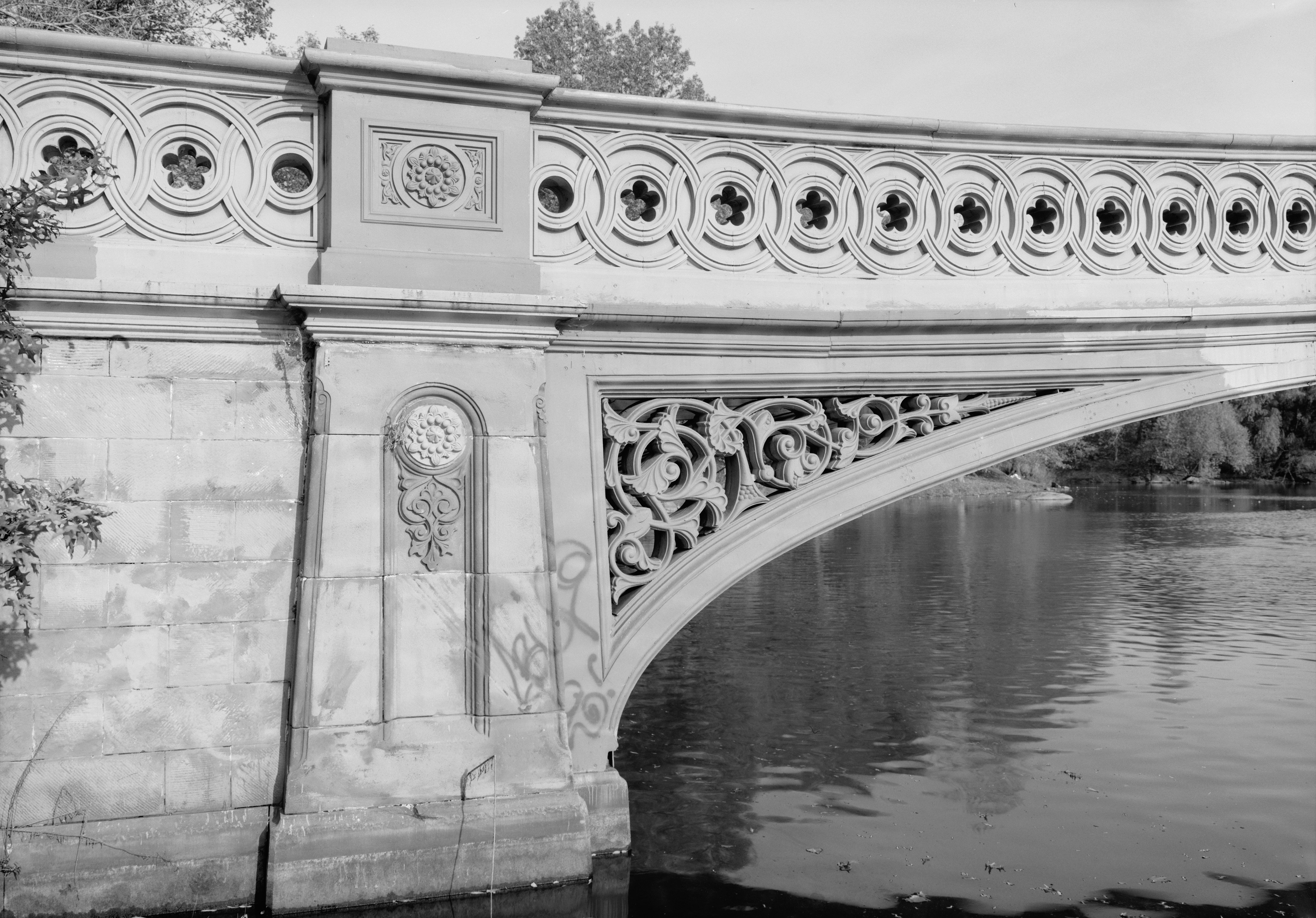 Detail view showing abutment and naturalistic detailing of cast iron openwork spandrel - Bow Bridge, Spanning the Lake